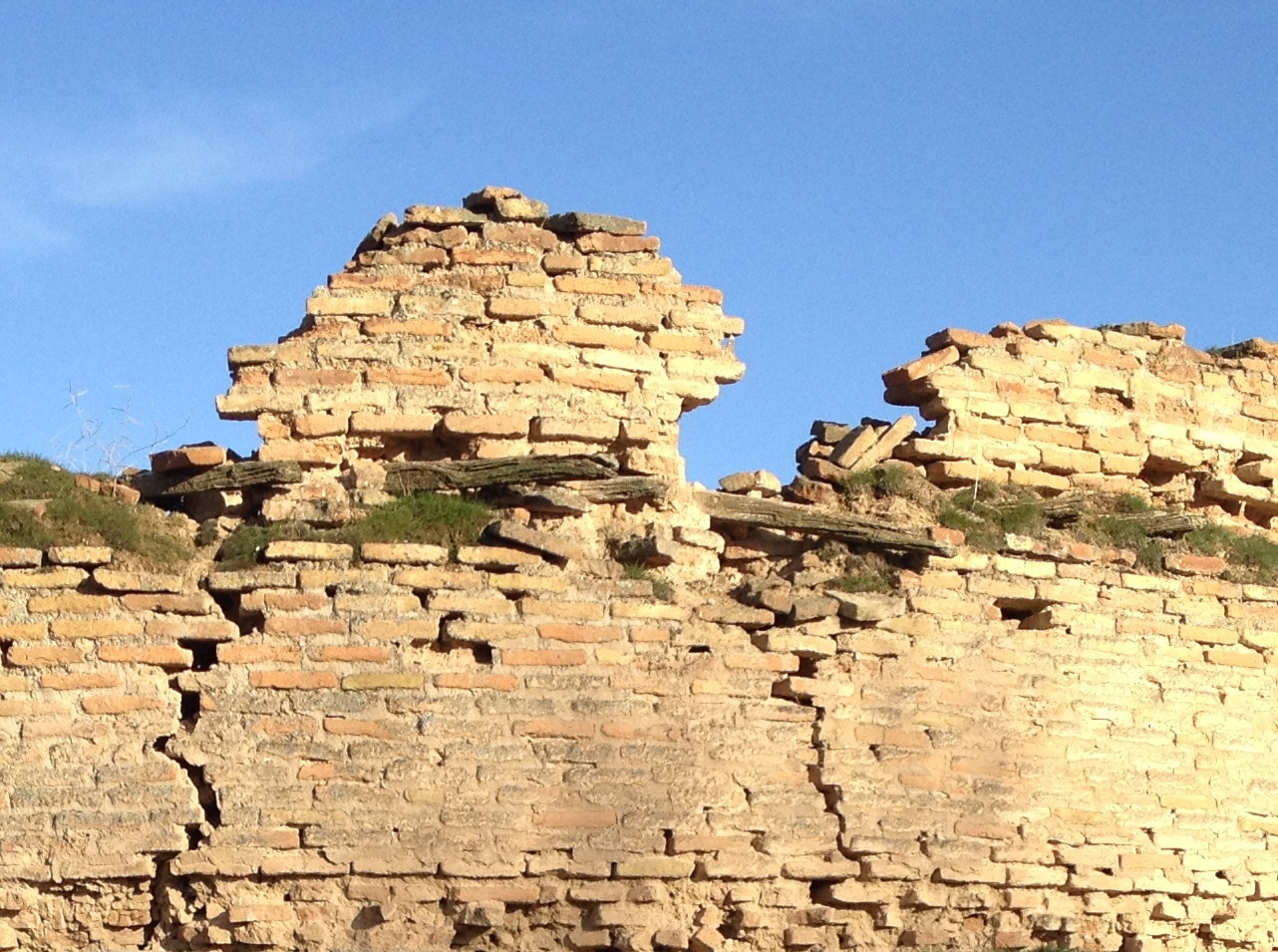 Brickwork and boards of Qaynargumbaz